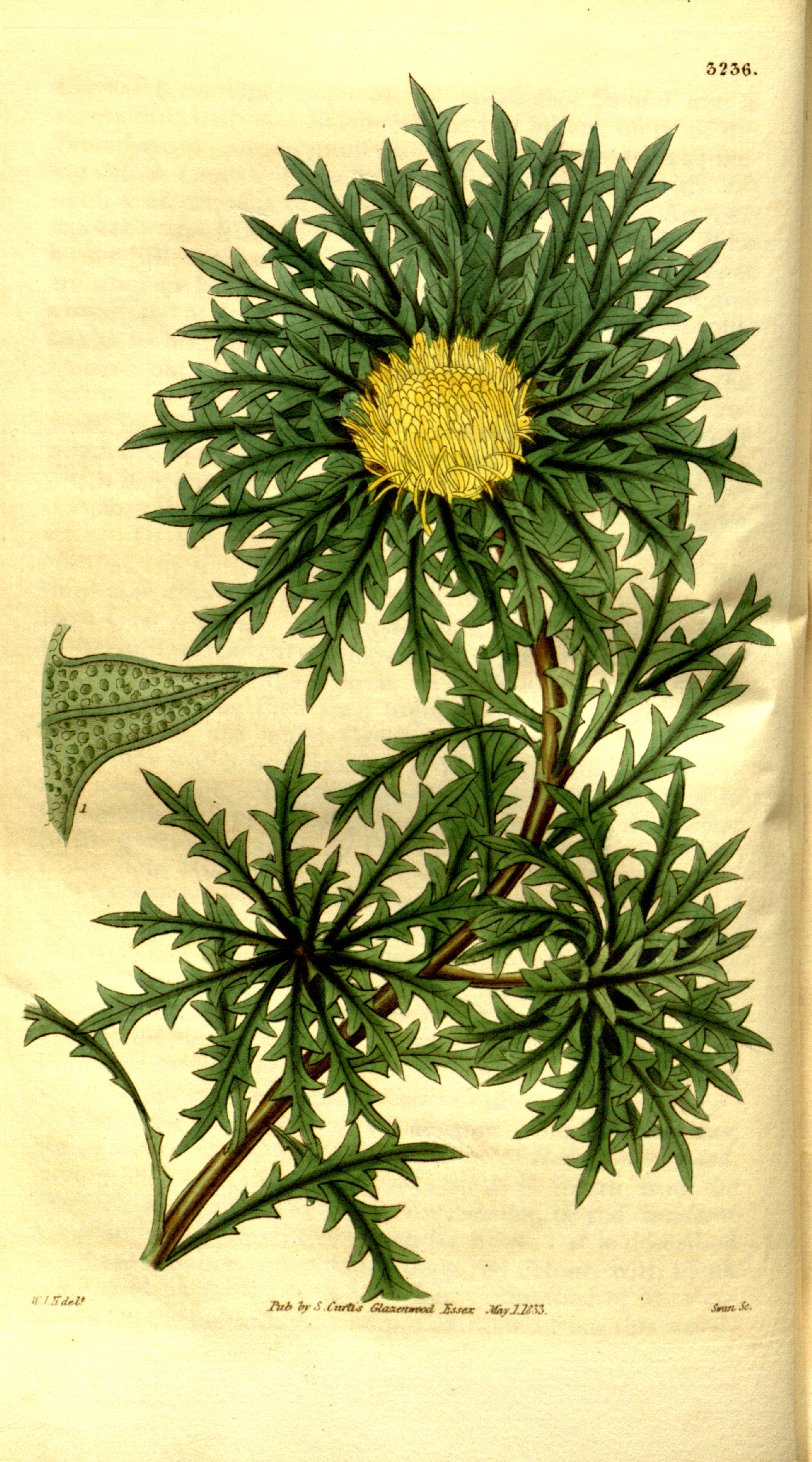 This is an image of Plate 3236 from Volume LX of Curtis's Botanical Magazine, entitled Dryandra armata. Sharp-pointed Dryandra. The plant depicted is now known as Banksia armata (Prickly Dryandra). Although not indicated in the text, the variety may be easily shown to be B. armata var. armata, rather than the recently described B. armata var. ignicida, on the following grounds: Var. armata has bright yellow inflorescences, as figured. The inflorescences of var. ignicida often have a pink tinge. Var. armata was one of the first published Banksia taxa, and one of the earliest to be cultivated in Europe. No early collections of var. ignicida are known. The figured plant is known to have been grown from seed sent by Charles Fraser. Fraser collected only in the vicinity of the Swan River, where only var. armata occurs. He did later take possession of some of William Baxter's collection, which conceivably could have included specimens of var. ignicida, but this happened too late for any seed to yield a flowering plant by 1833.